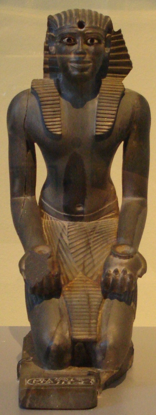 Kneeling statue of Pepi I Meryre. Greywacke, alabaster, obsidian and copper. Old Kingdom, Dynasty VI, c. 2338-2298.